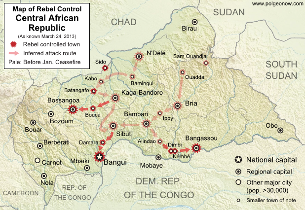 Map of Central African Republic Bush War movements in the coup that deposed President François Bozizé in 2013.